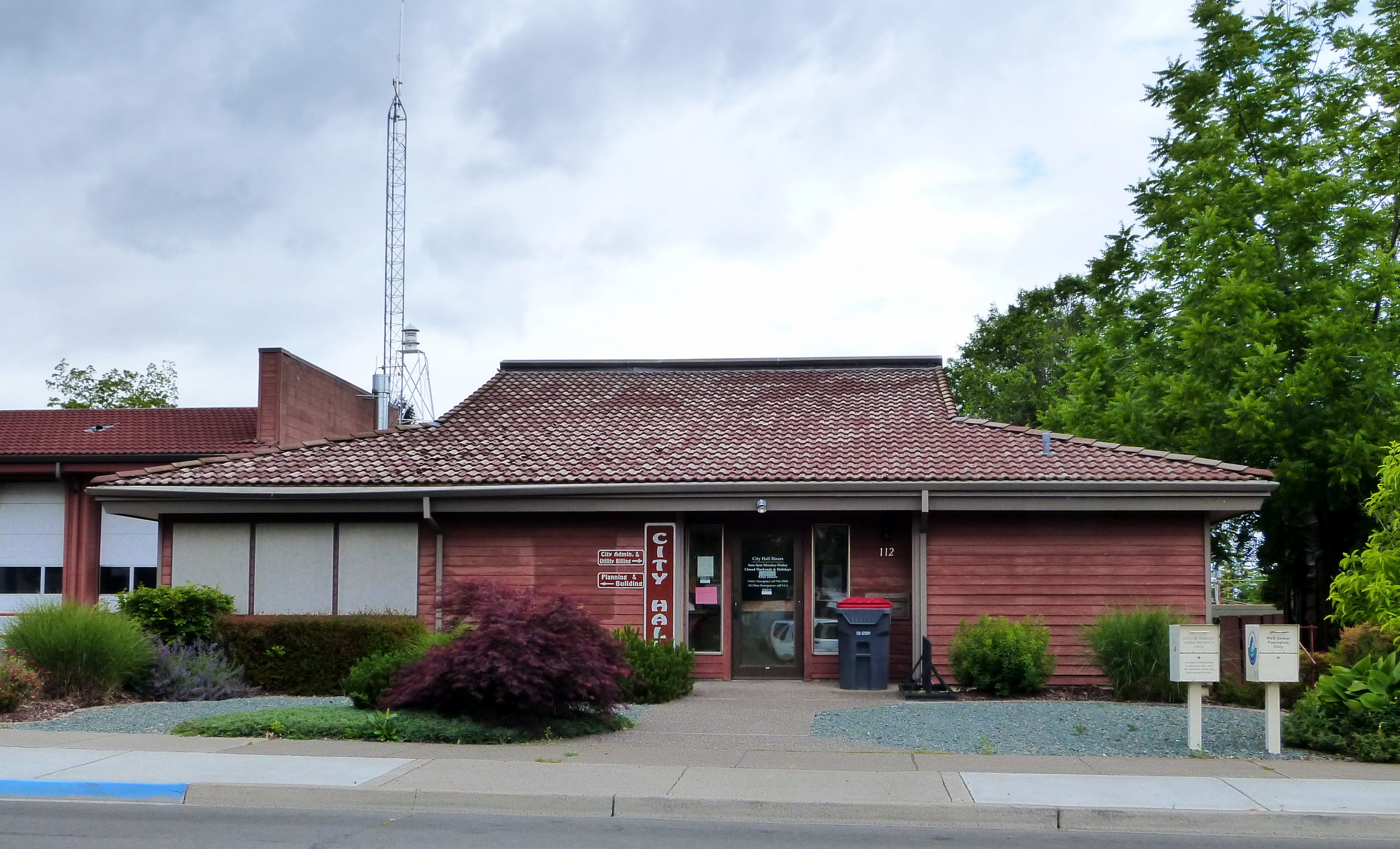 City hall of Phoenix, Oregon, United States, address 112 2nd Street.